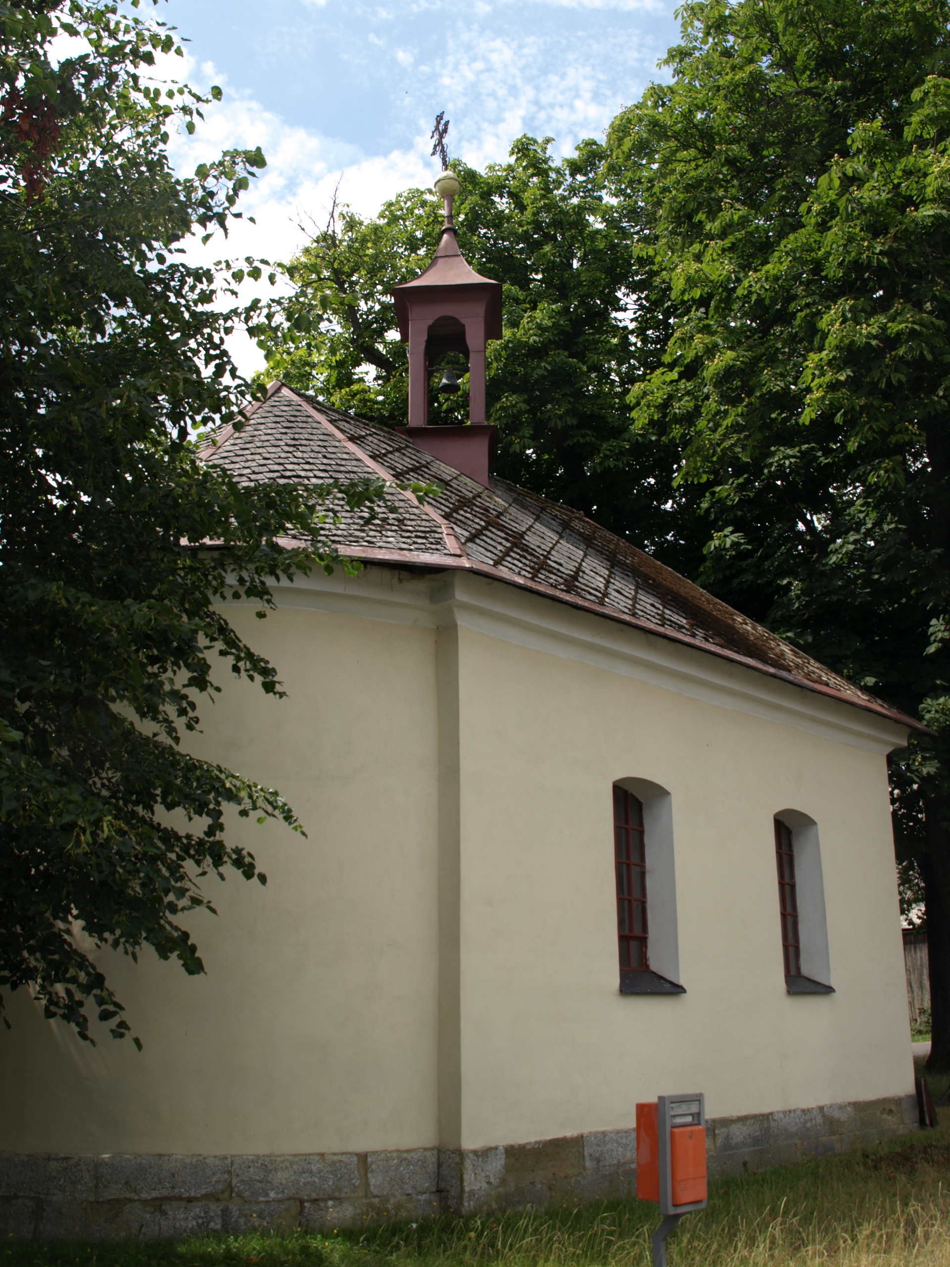 Chapel in Mezilesí u Lanškrouna